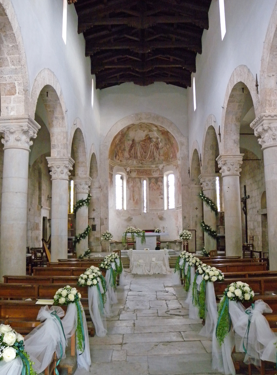 Interior of the Church SS Felicità e Giovanni in Valdicastello (Tuscany/Versilia), founded in the 9th century, near Pietrasanta at the old Francigena pilgrimage route from France to Rome